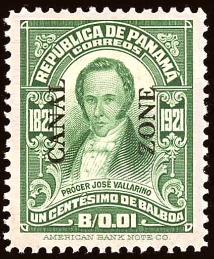 Canal Zone, Vallarino, 1c, 1921 Issue